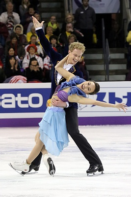 Madison Chock and Evan Bates at the 2013 World Championships